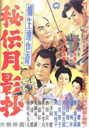 1956 Japanese movie poster for 1956 Japanese movie (柳生連也斎 秘伝月影抄 Yagyū renyasai: hidentsuki kageshō).